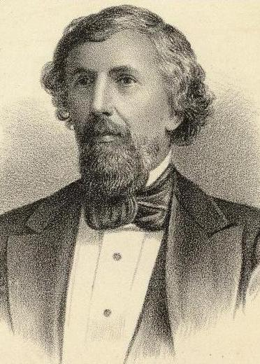 Andrew Scott Sloan (Wisconsin Congressman)